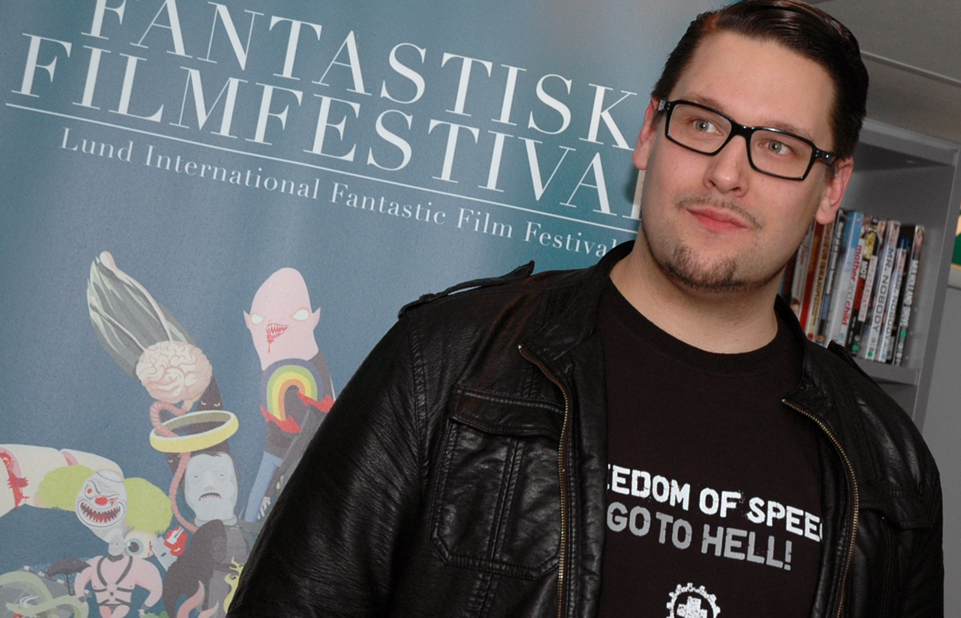 Director Timo Vuorensola at a Swedish screening of Iron Sky.